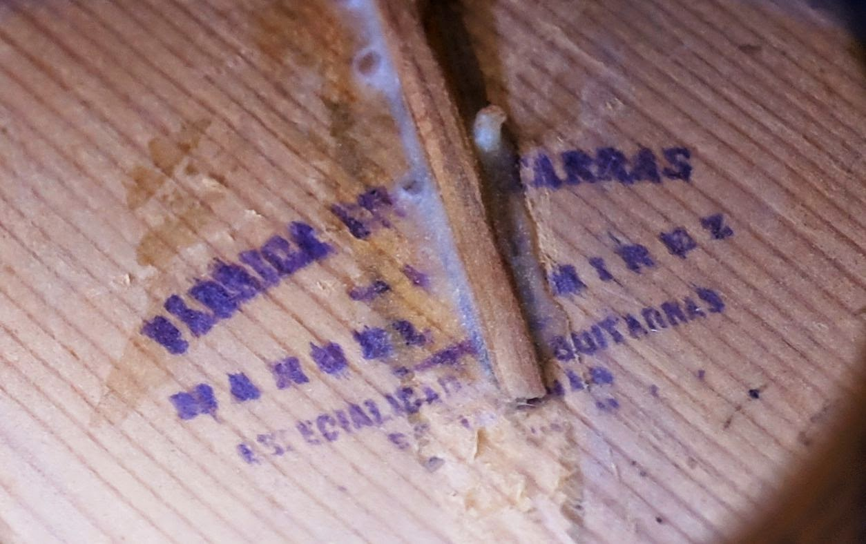 Etiqueta hermanos ramirez